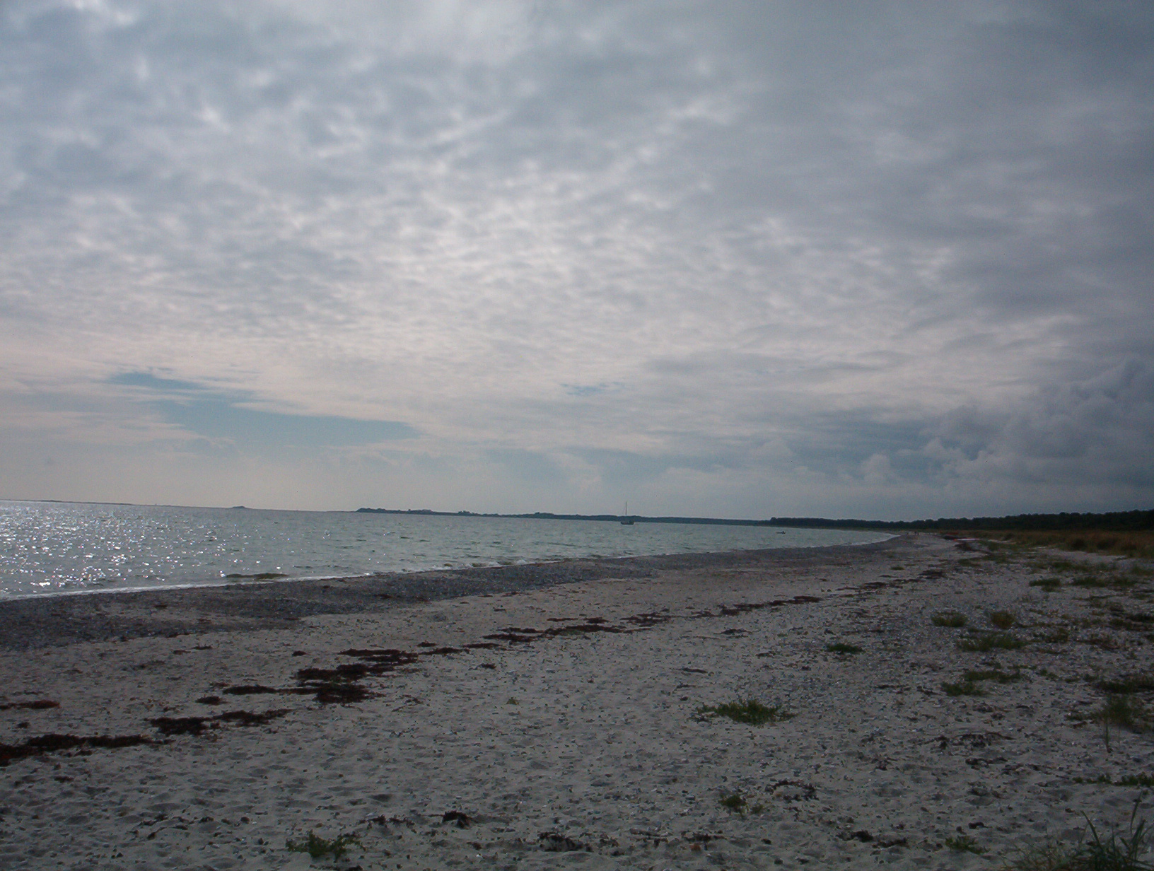 Beach on Samsø Source: Photo taken by Bruger:Palnatoke